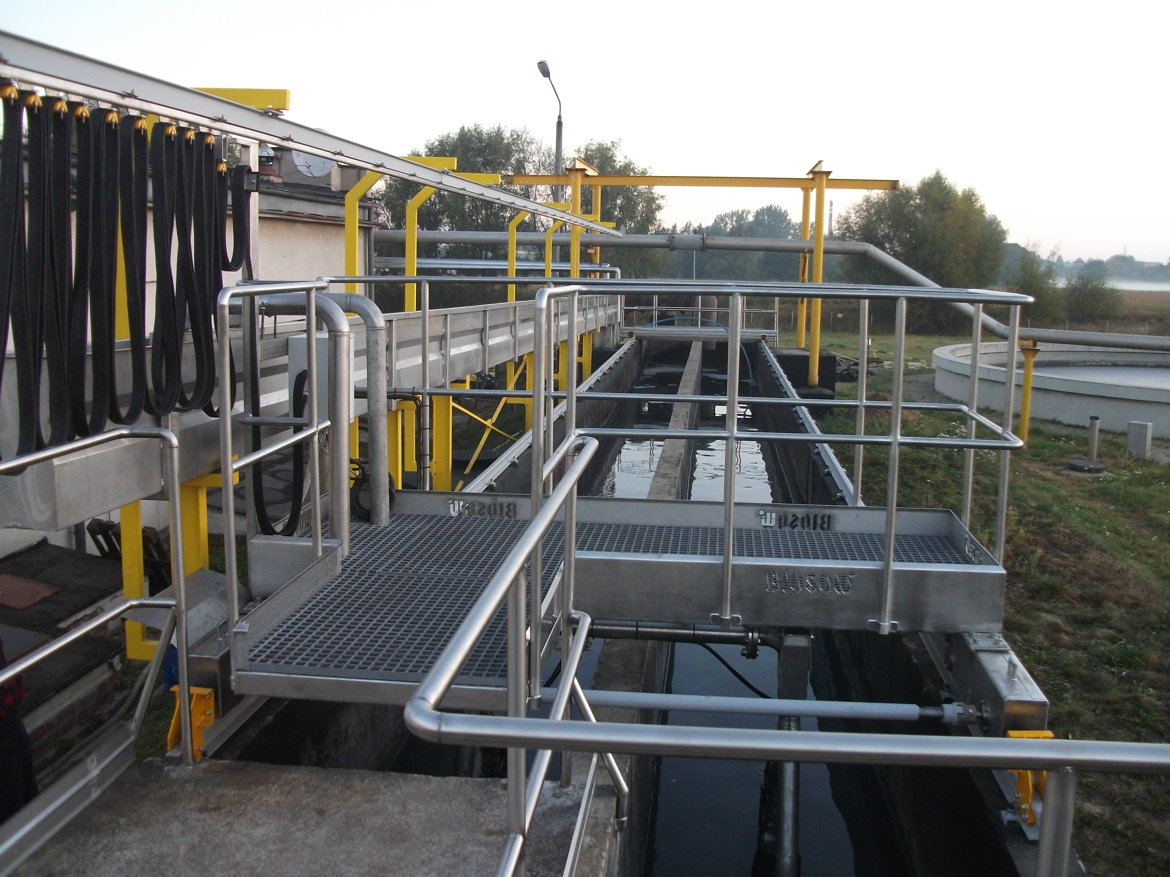 Sand separator in sewage treatment plant in Wieluń. Separator after reconstruction /2011 - Biosow/